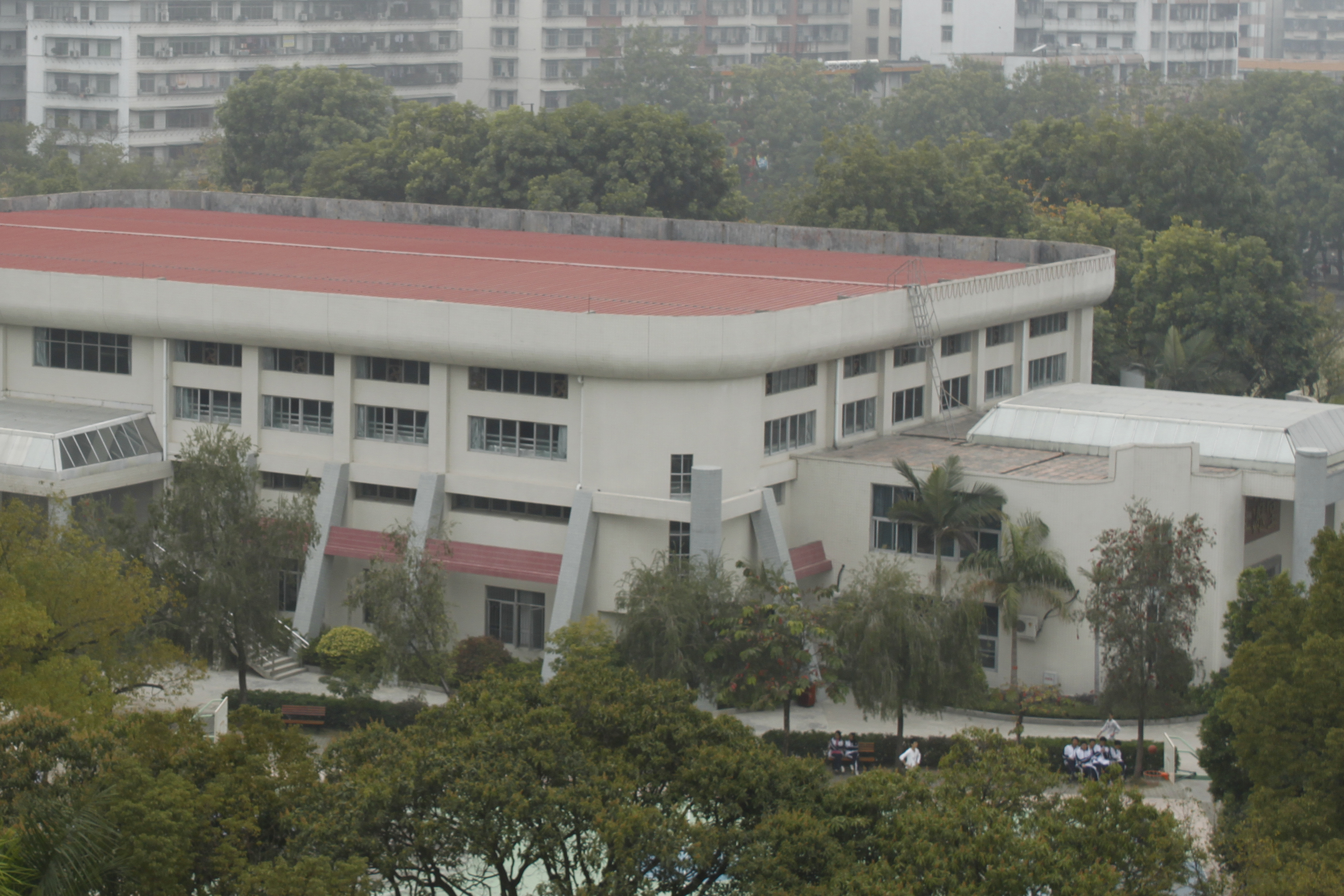 Weiyuantang Sports Centre located at Urban of Puning City